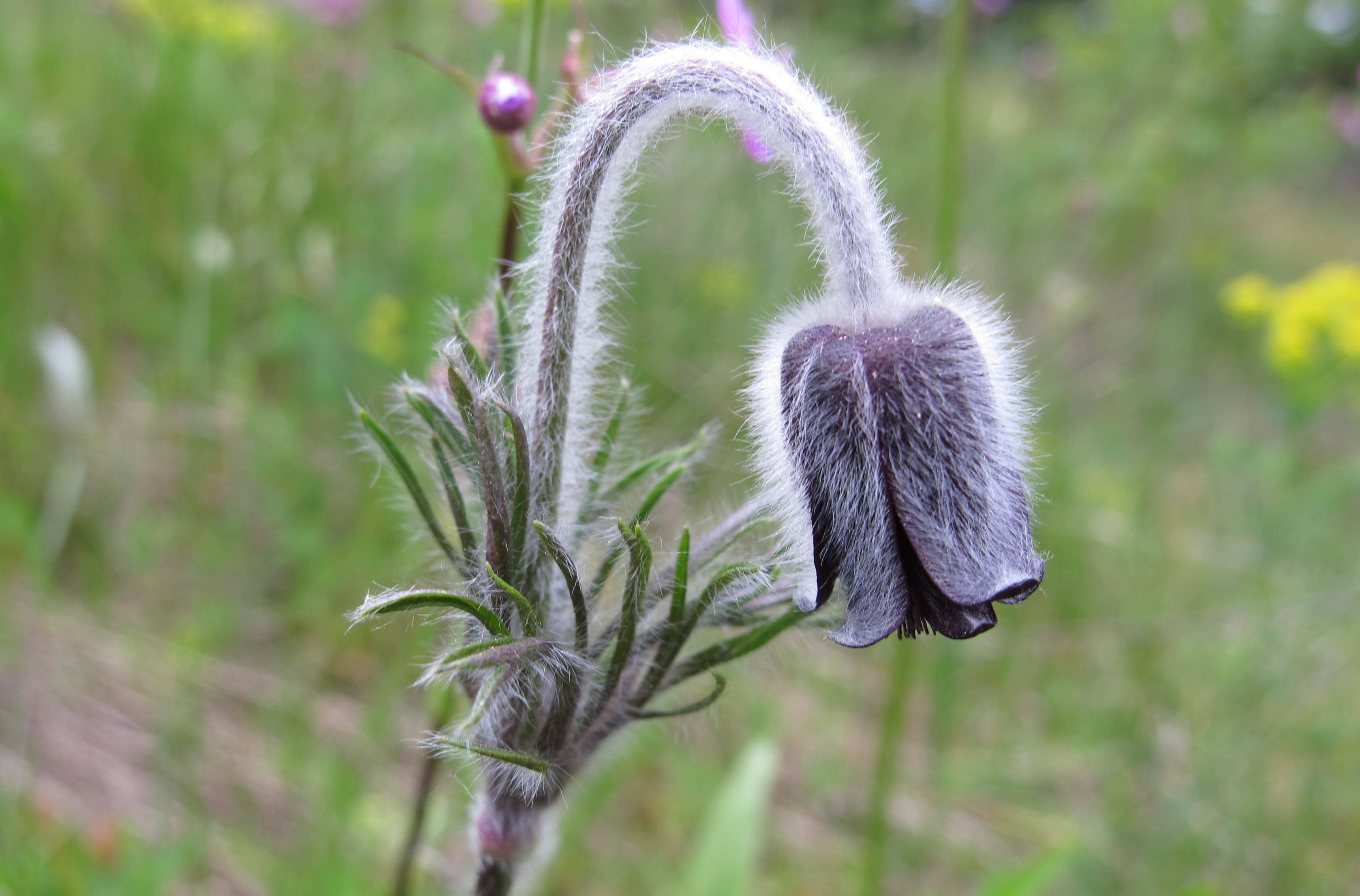 Pulsatilla pratensis in natural monument Na horách near Křešín (near Jince) in Příbram Dístrict